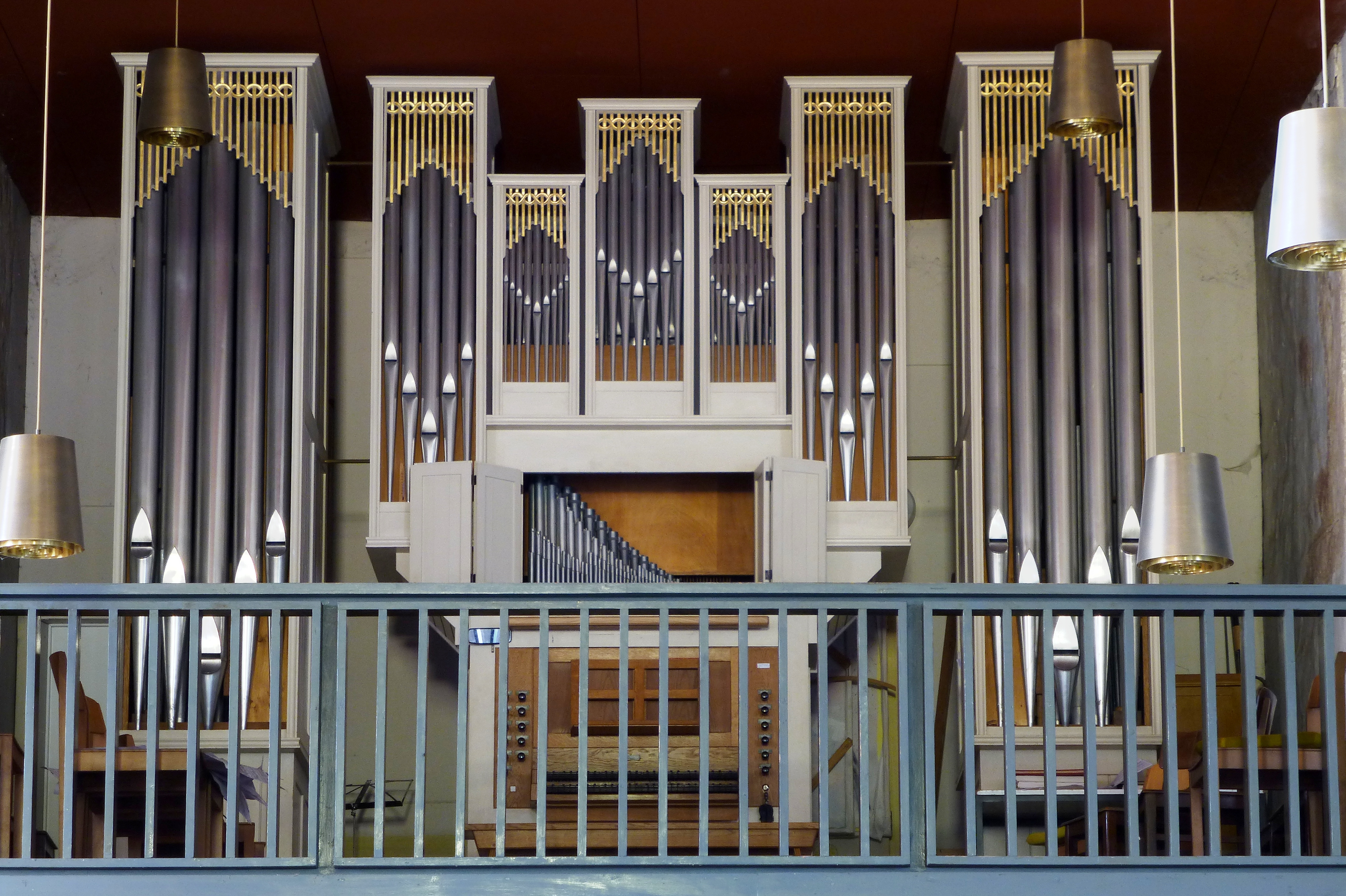 Pipe organ in former monastery church St. Christopohorus in Gleichen-Reinhausen, Lower Saxony, Germany. Built in 1967 by organ builder Rudolf Janke